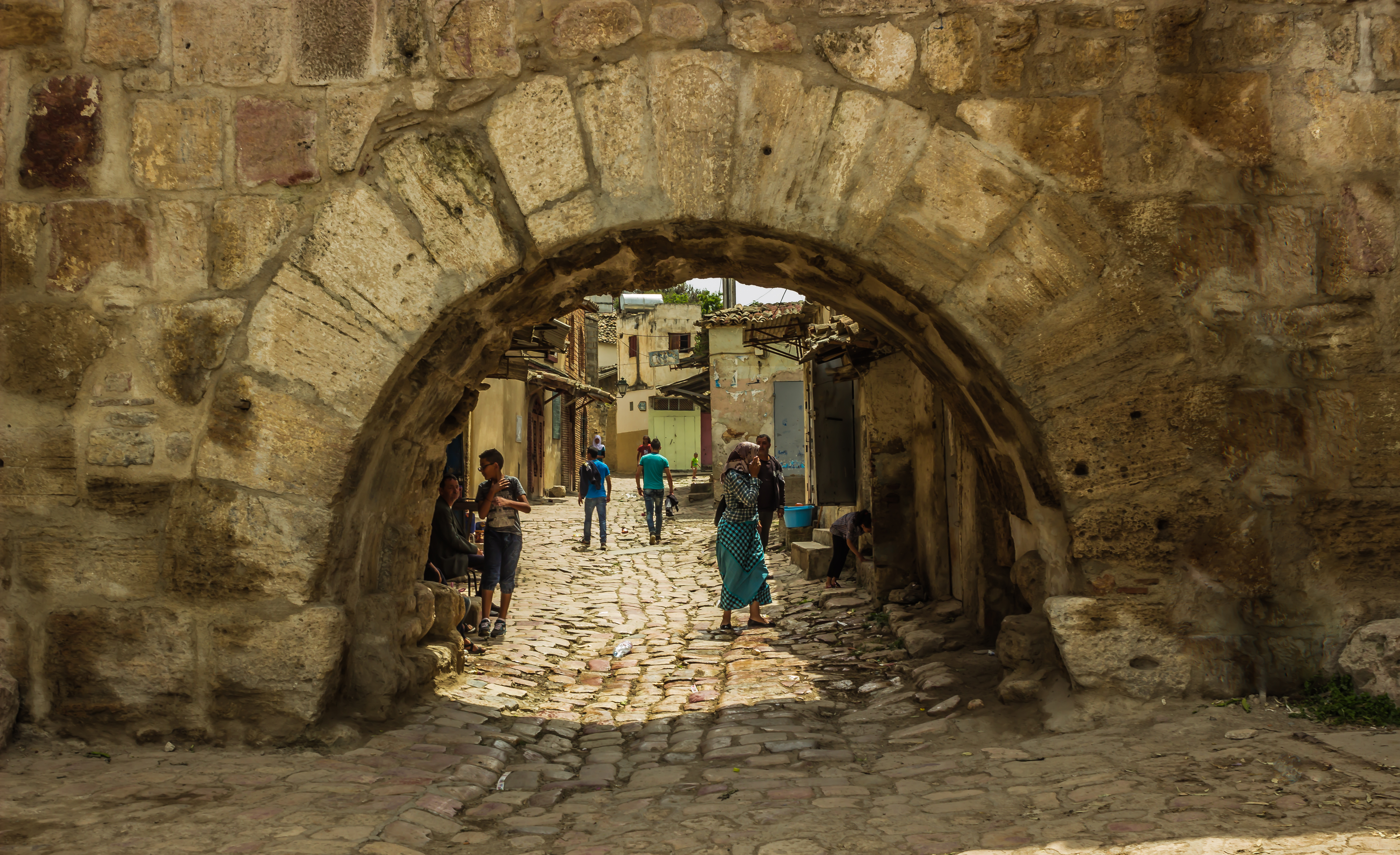 Bab el Bled in the old city of Mila, in Algeria